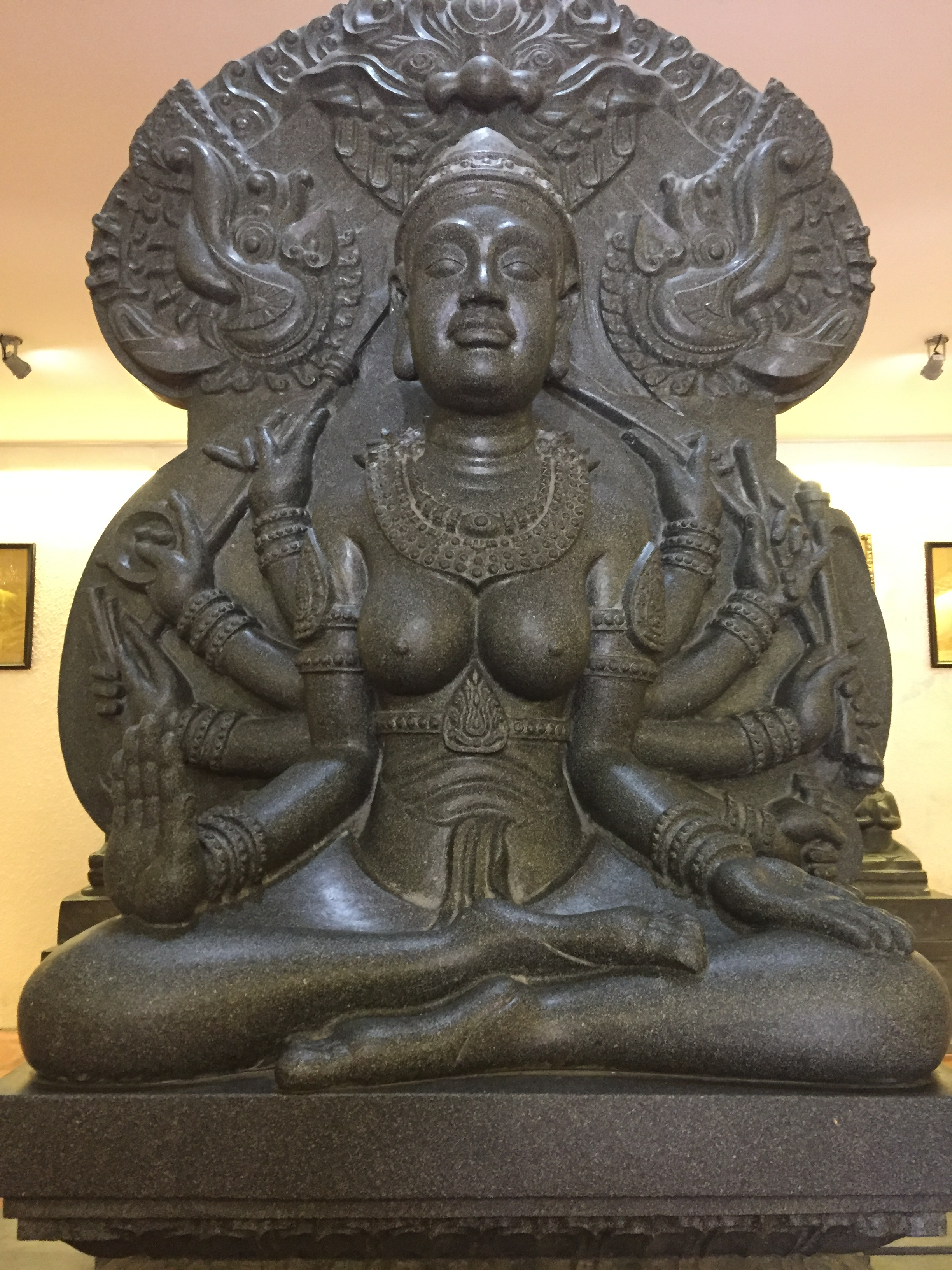 Statue of Po Nagar in Nha Trang.jpg